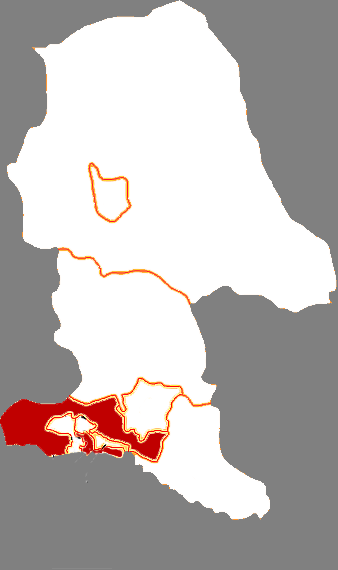 Locator map of Jiuyuan District in Baotou City, Inner Mongolia, China